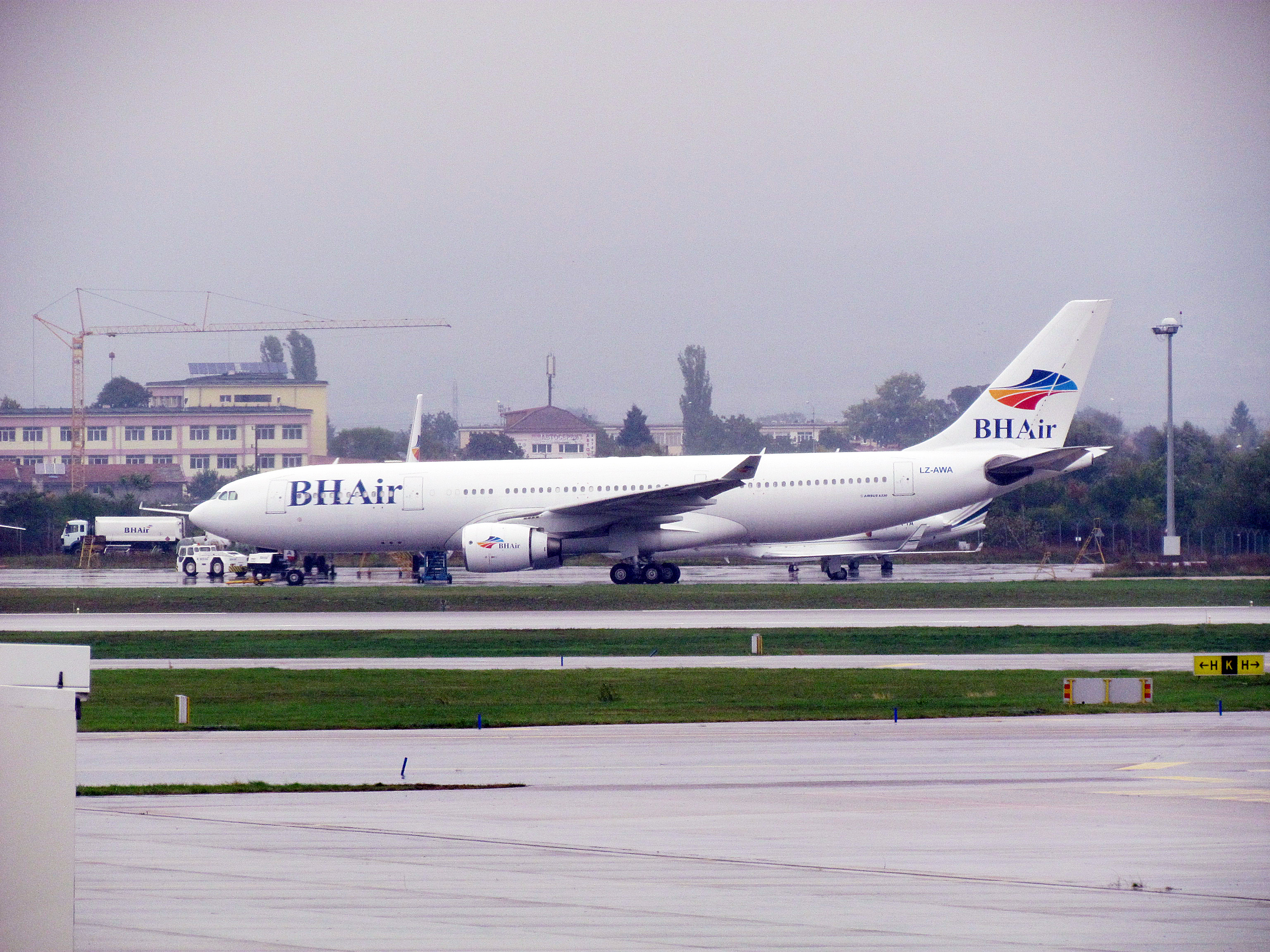 Bh air bus 330